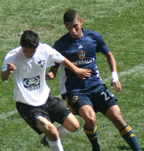 Sean Franklin (in blue) playing for Los Angeles Galaxy in a scrimmage against the San Fernando Valley Quakes, 2008